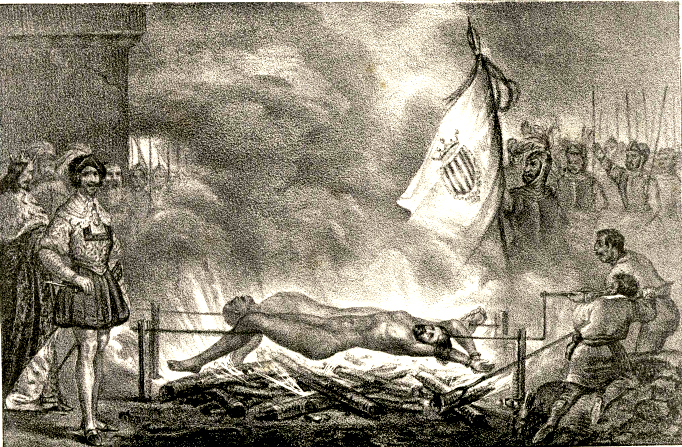 Martyrdom of Cabrit i Bassa, at Alaró, engraving a Historia general del Reino de Mallorca, 1840